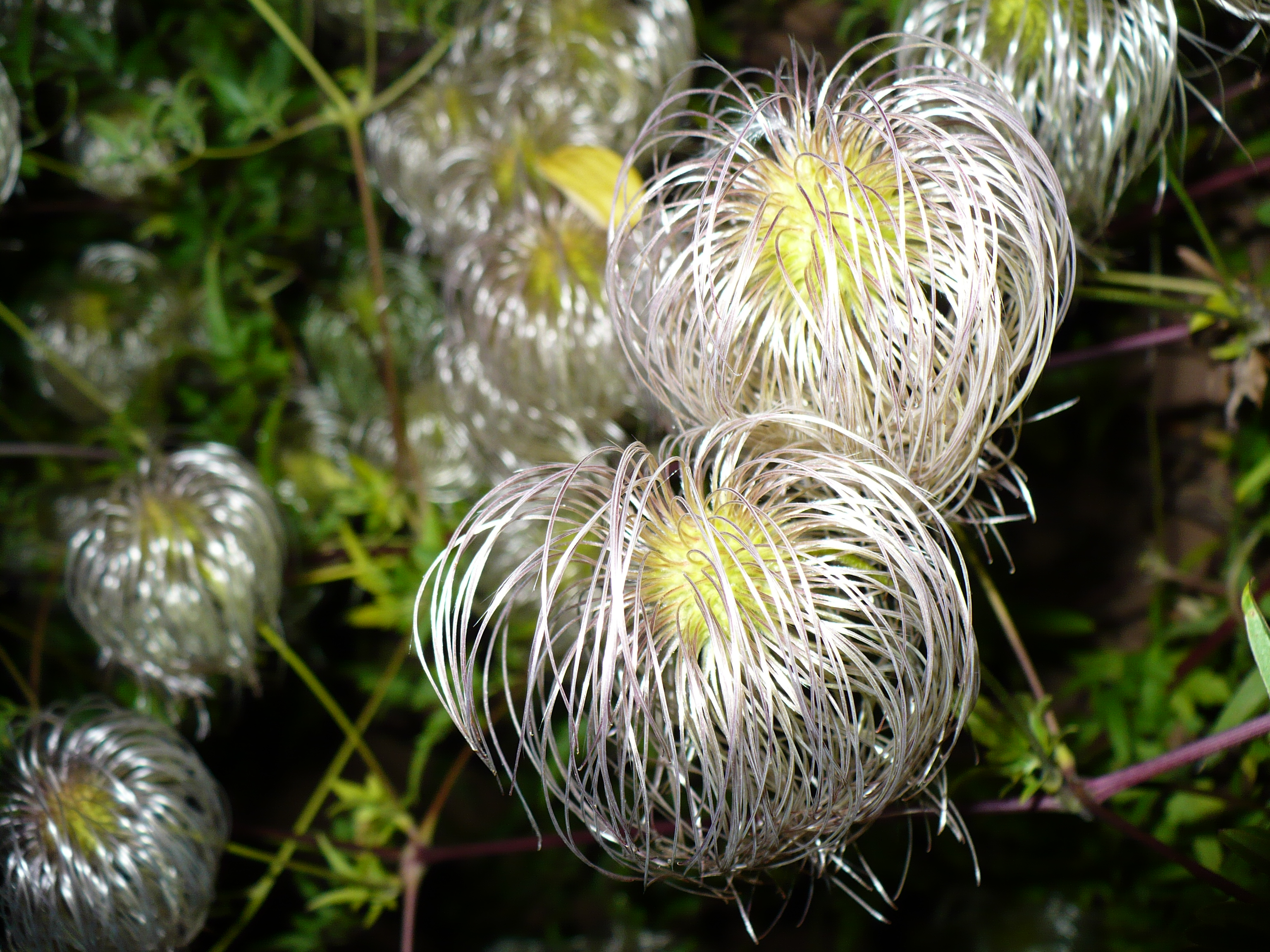 close up of Clematis tangutica flowerhead after flowering